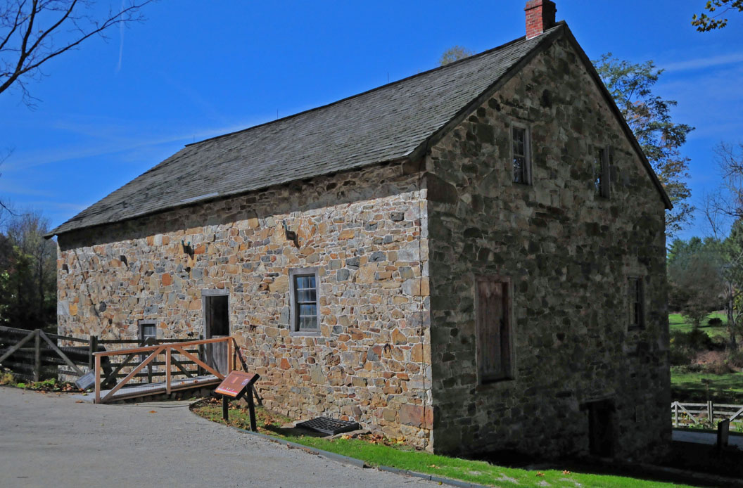 The Mill at Anselma, a.k.a. Lightfoot Mill, circa 1747, in commercial operation until 1982. Chester Springs, Pennsylvania, USA.